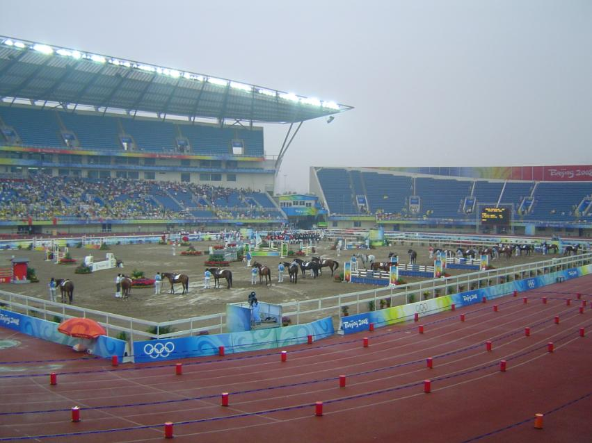 The presentation of the horses for the equestrian competition of the men's Modern pentathlon at the 2008 Summer Olympics in the stadium of the Olympic Sports Center.